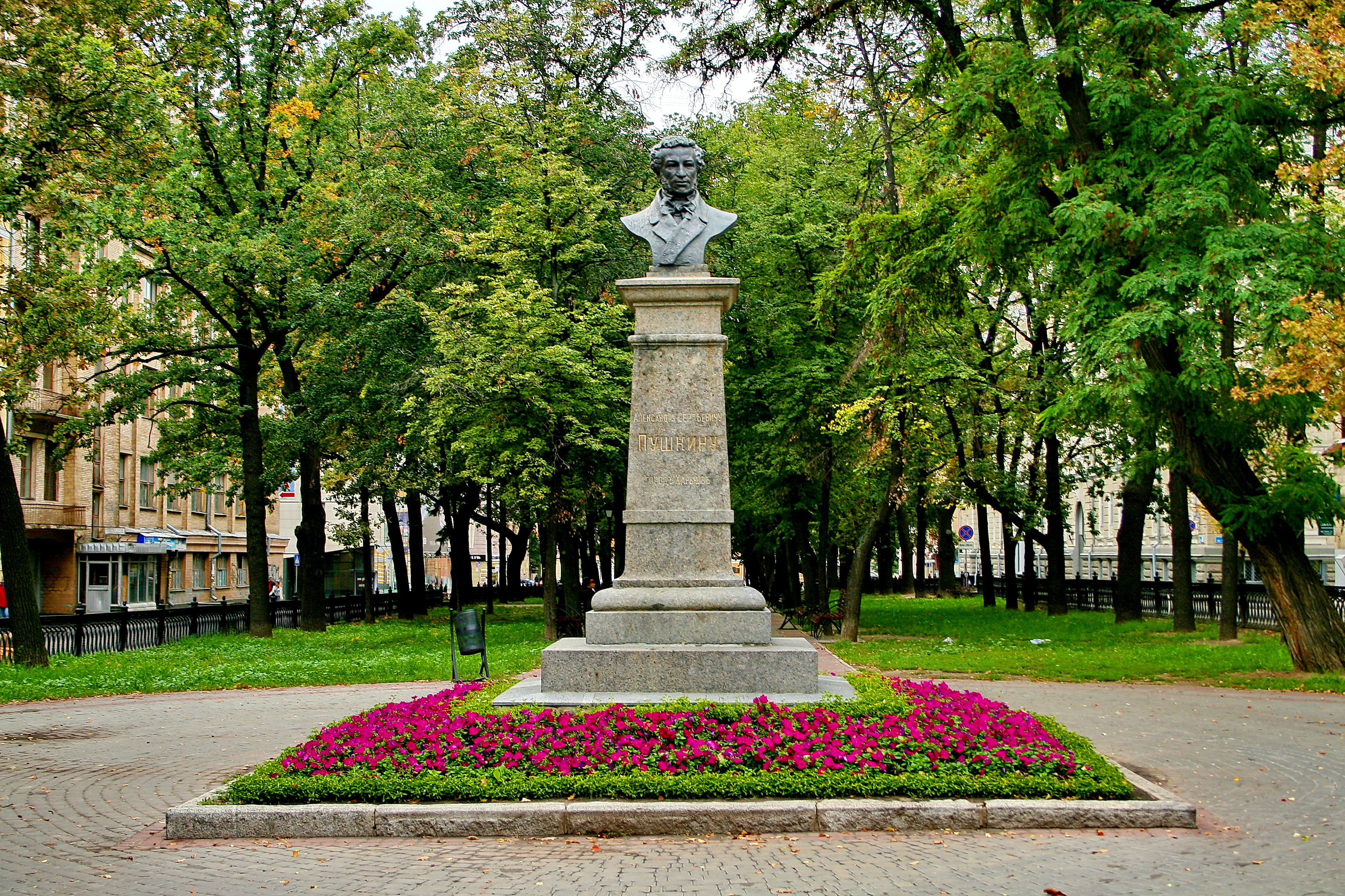 Pushkin monument